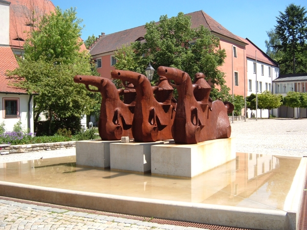 sculpture "3 Reiter"by Lothar Fischer in Neumarkt (Upper Palatinate), Bavaria/Germany